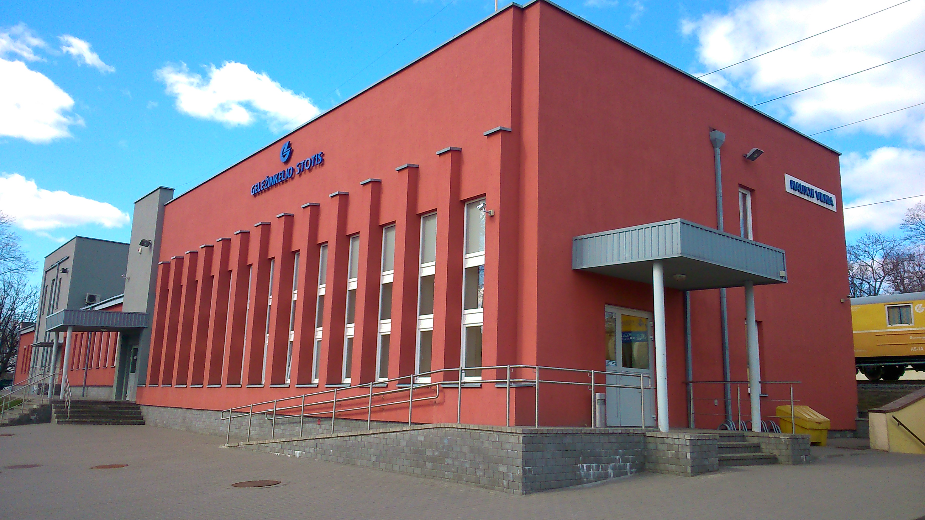 Naujoji Vilnia train station